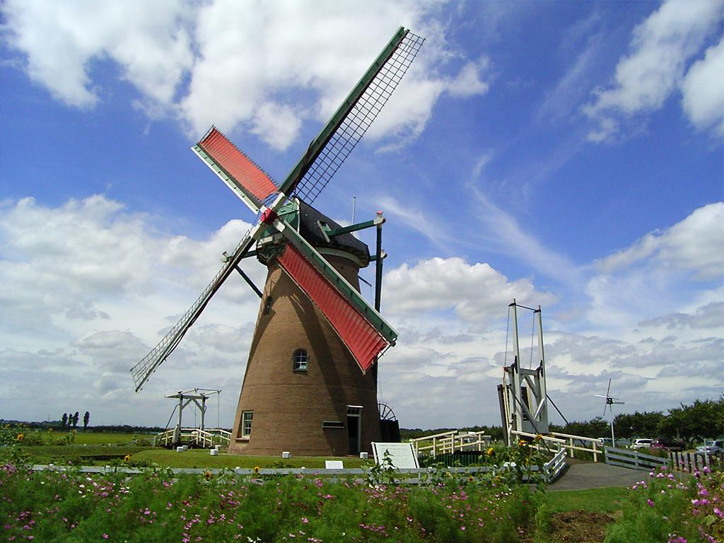 Netherland windmill at the Sakura Furusato Square